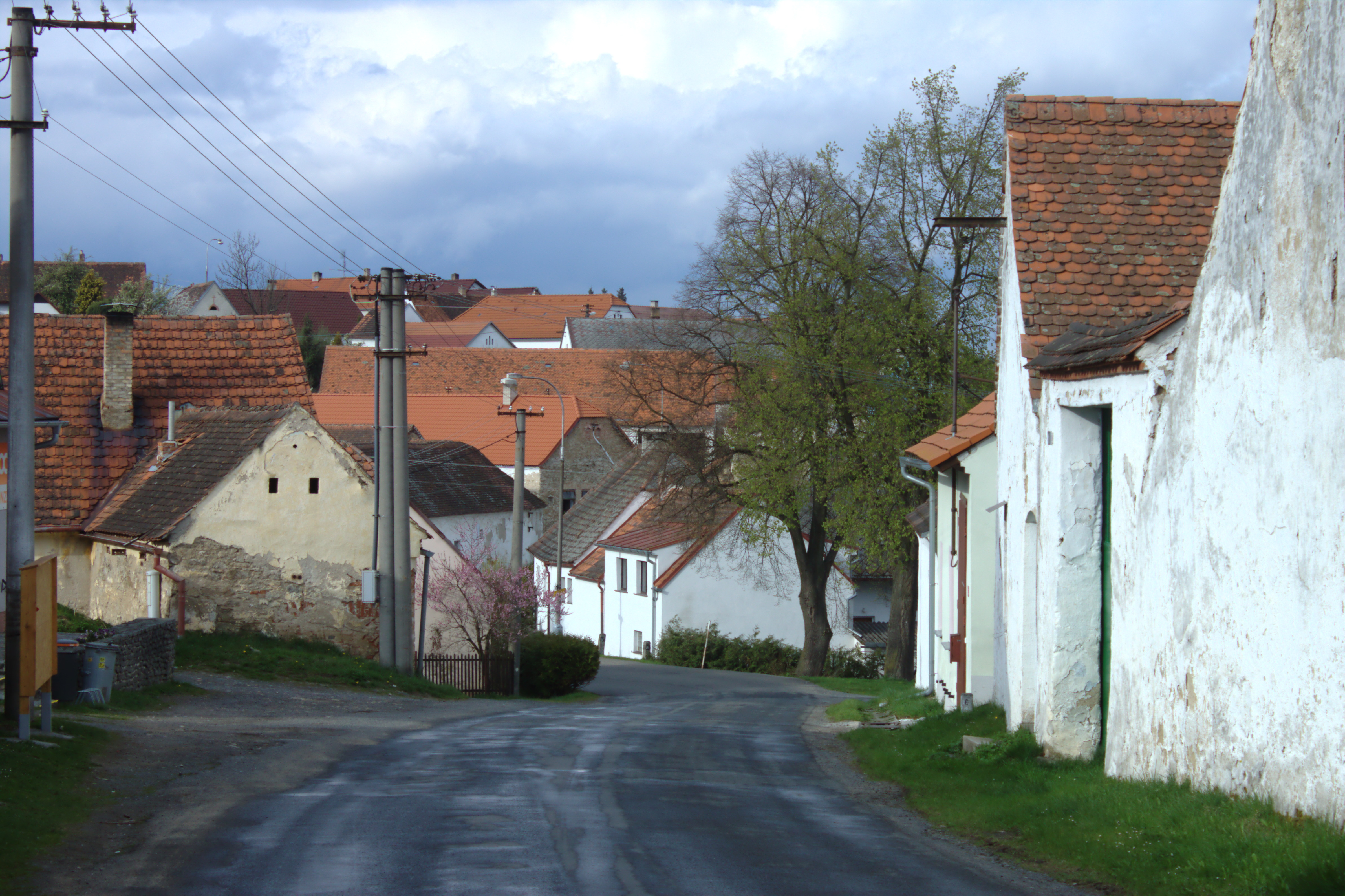 Buildings near the main road in the village of Třebomyslice, Plzeň Region, CZ